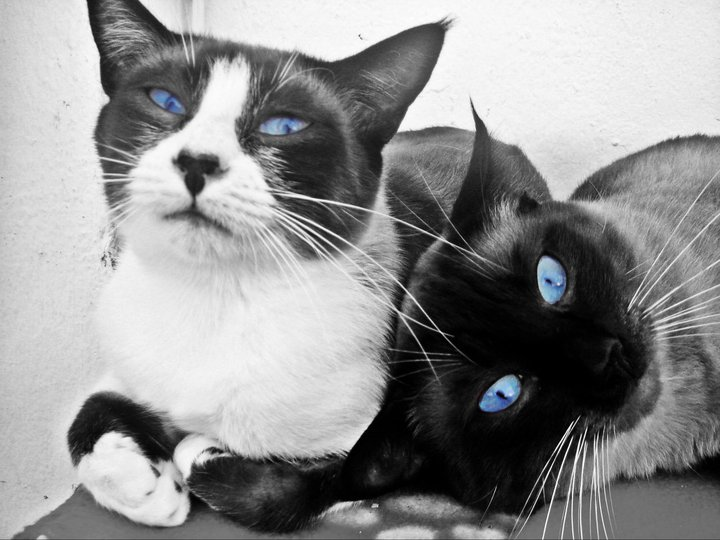 My cats